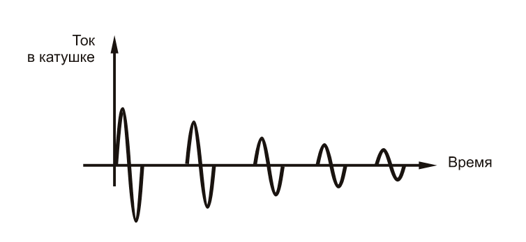 форма burst-стимула, выдаваемая индуктором магнитного стимулятора